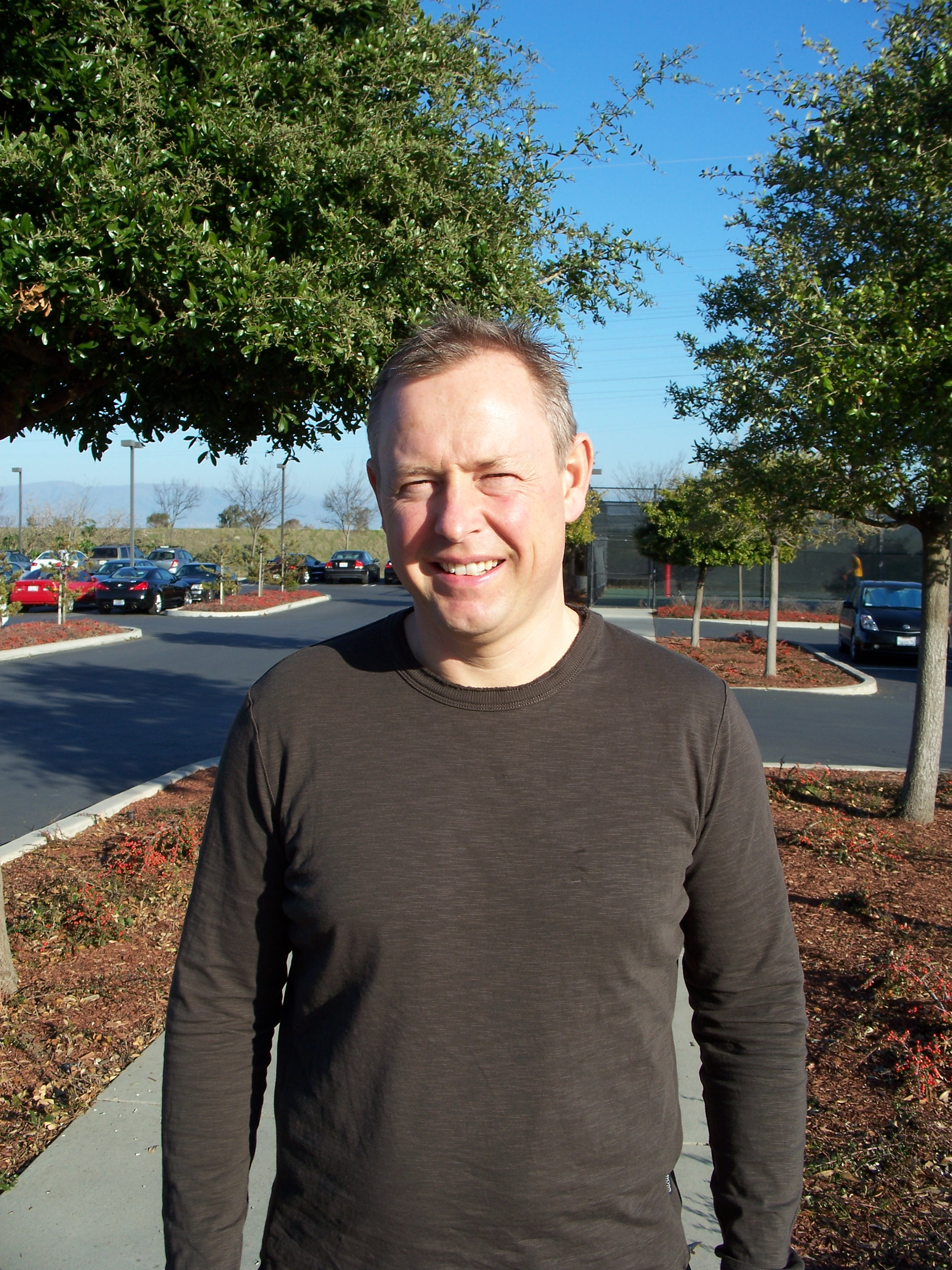 Haavard Nord (Trolltech, Qt) on KDE 4.0 release event. Google campus, Mountain View, California, USA